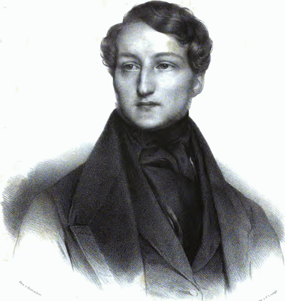 Sigismond Thalberg (1812-1871), composer and one of the most distinguished virtuoso pianists of the 19th century